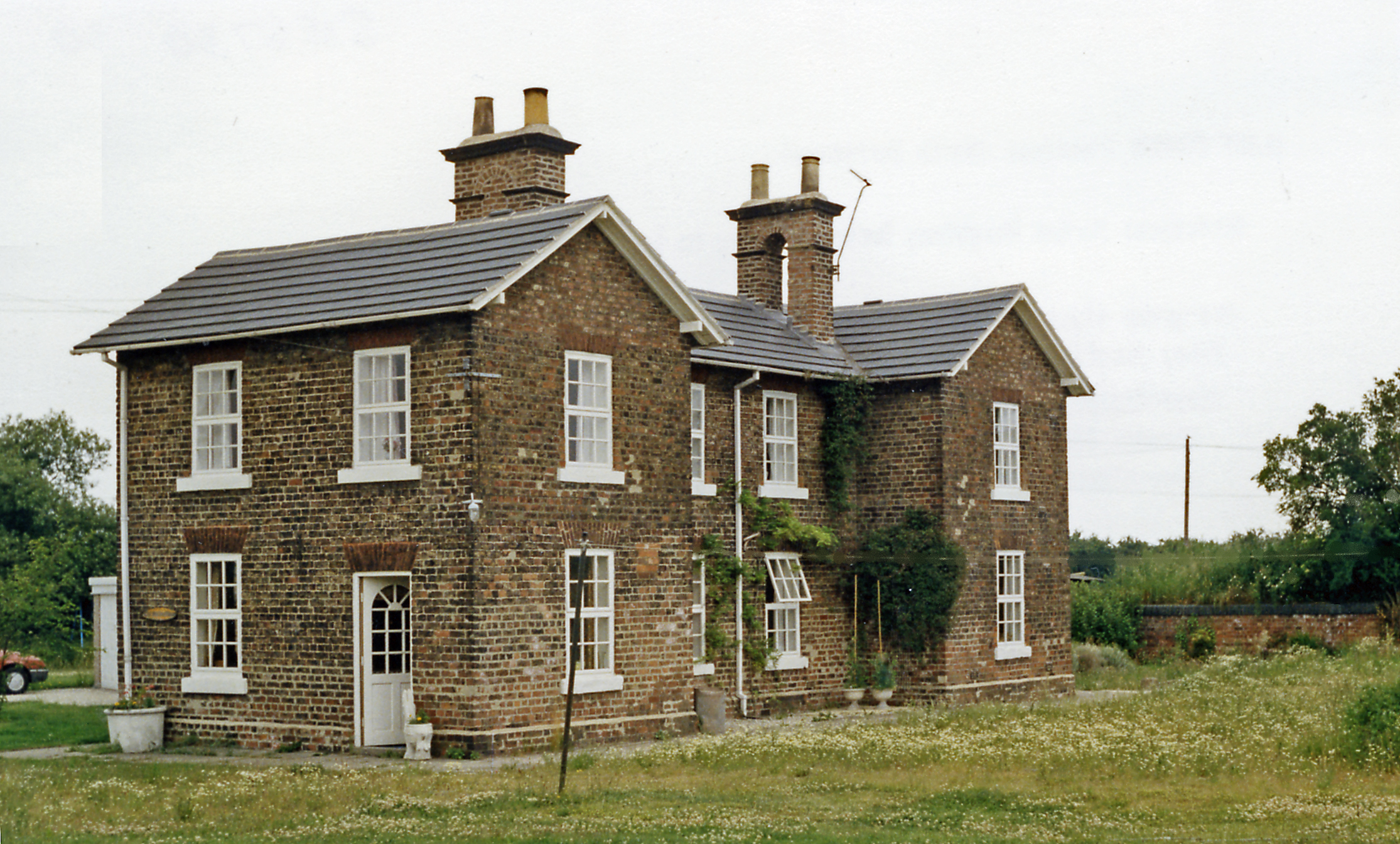 Former station at Cliffe Common, 1988. View eastward, towards Market Weighton etc. on ex-NER Selby - Market Weighton - Bridlington line, closed 14/6/65. This substantial station house had been on the Down side of this line, the station having been closed earlier (20/9/54). Cliff Common had also been the terminus of the Derwent Valley Light Railway from York (Layerthorpe), until 1/9/26 when passenger services ceased - after only 13 years, but the DVLR carried goods traffic to Cliff Common until 9/2/65, when it was cut back to York in stages, finally ending on 27/9/81.